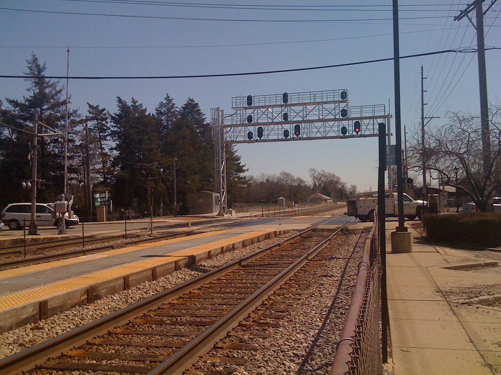 Looking southeast down the station platforms at River Grove across IL-171.